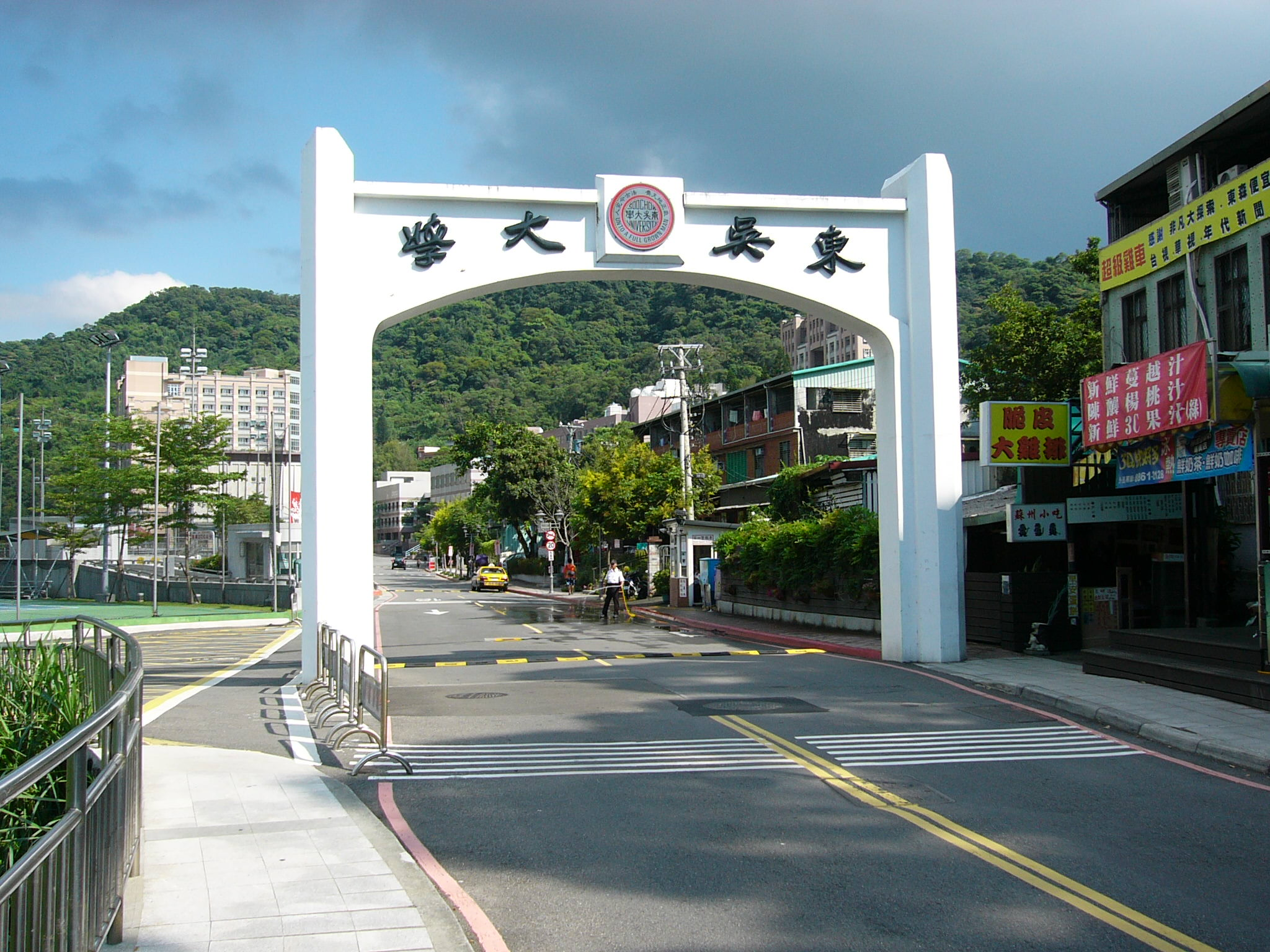 The main gate of Waishuanghsi Campus, Soochow University.